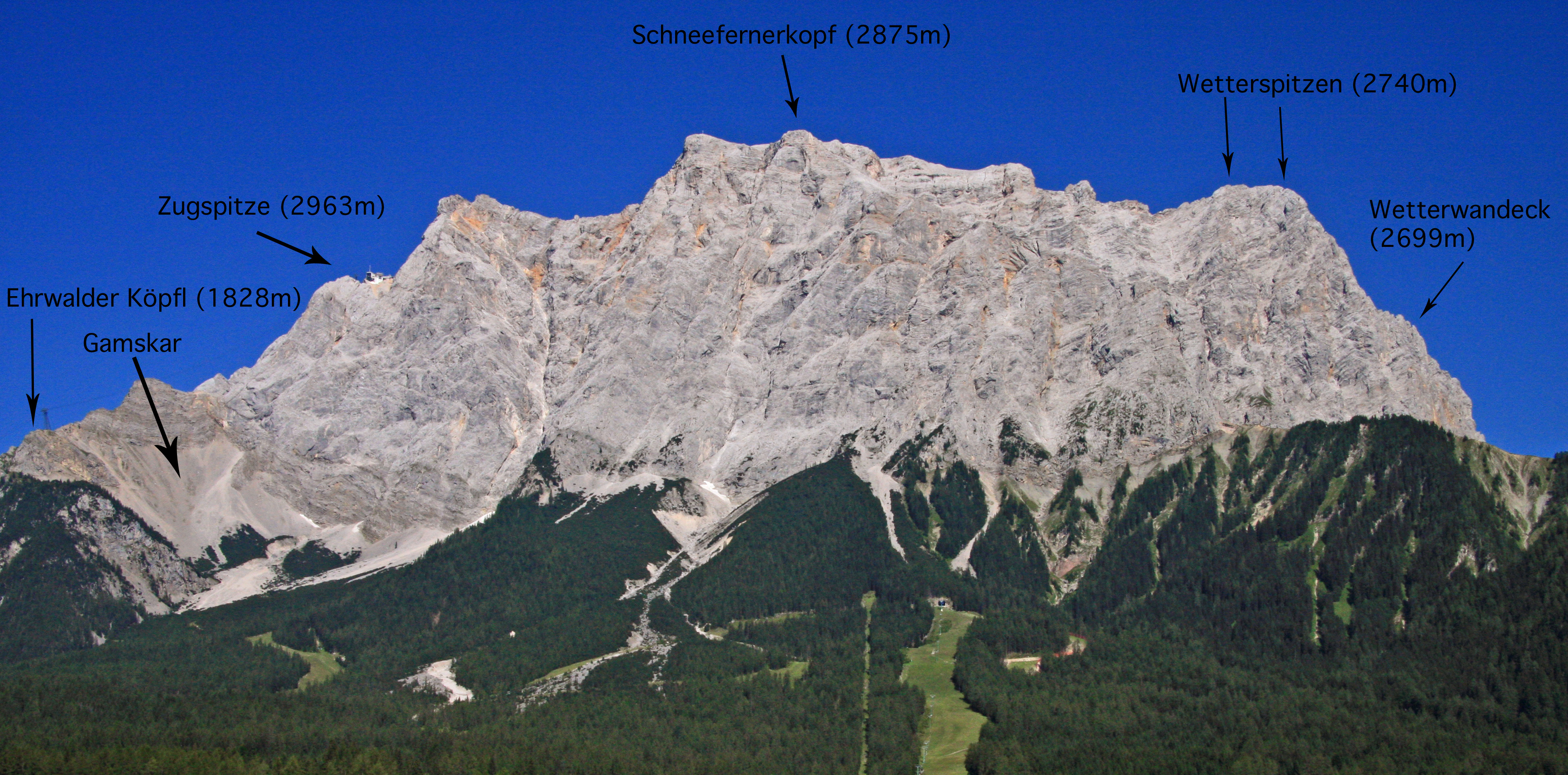 Zugspitz mountain range from the west.